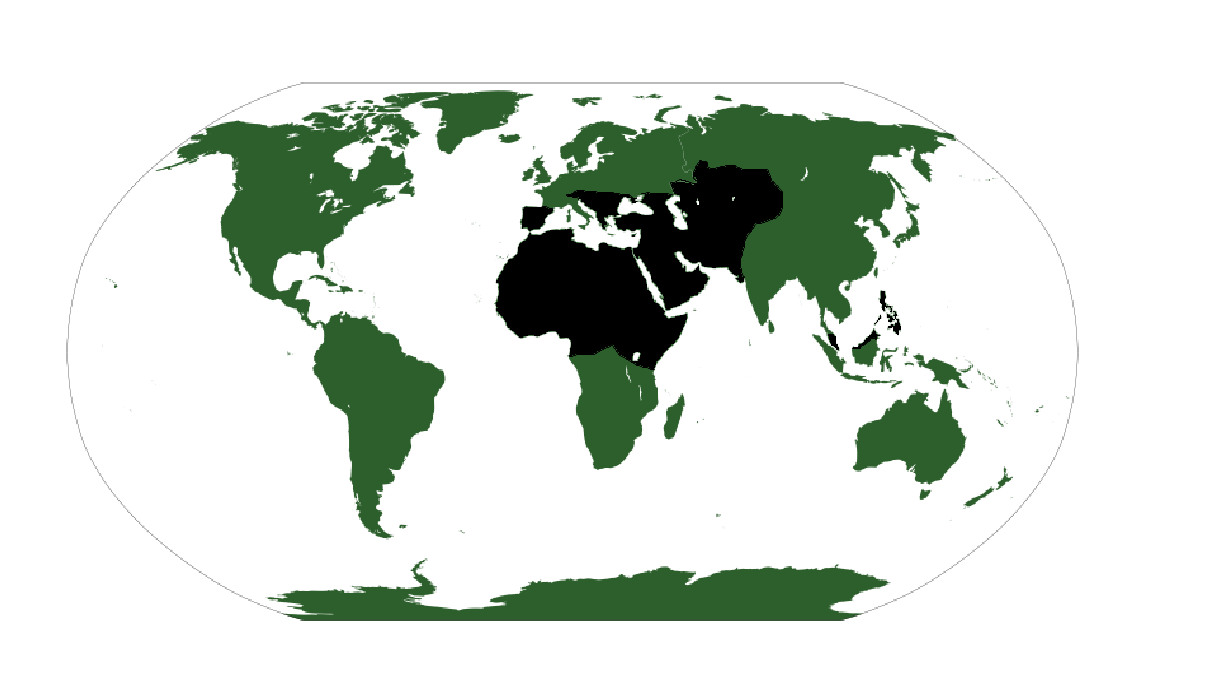 Territories plans to expand the Islamic State